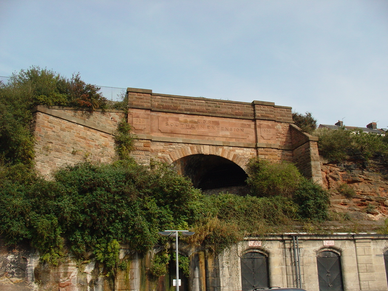 Mouth of the Southern Extension Tunnel of the disused Liverpool Overhead Railway at Dingle, Liverpool, England.